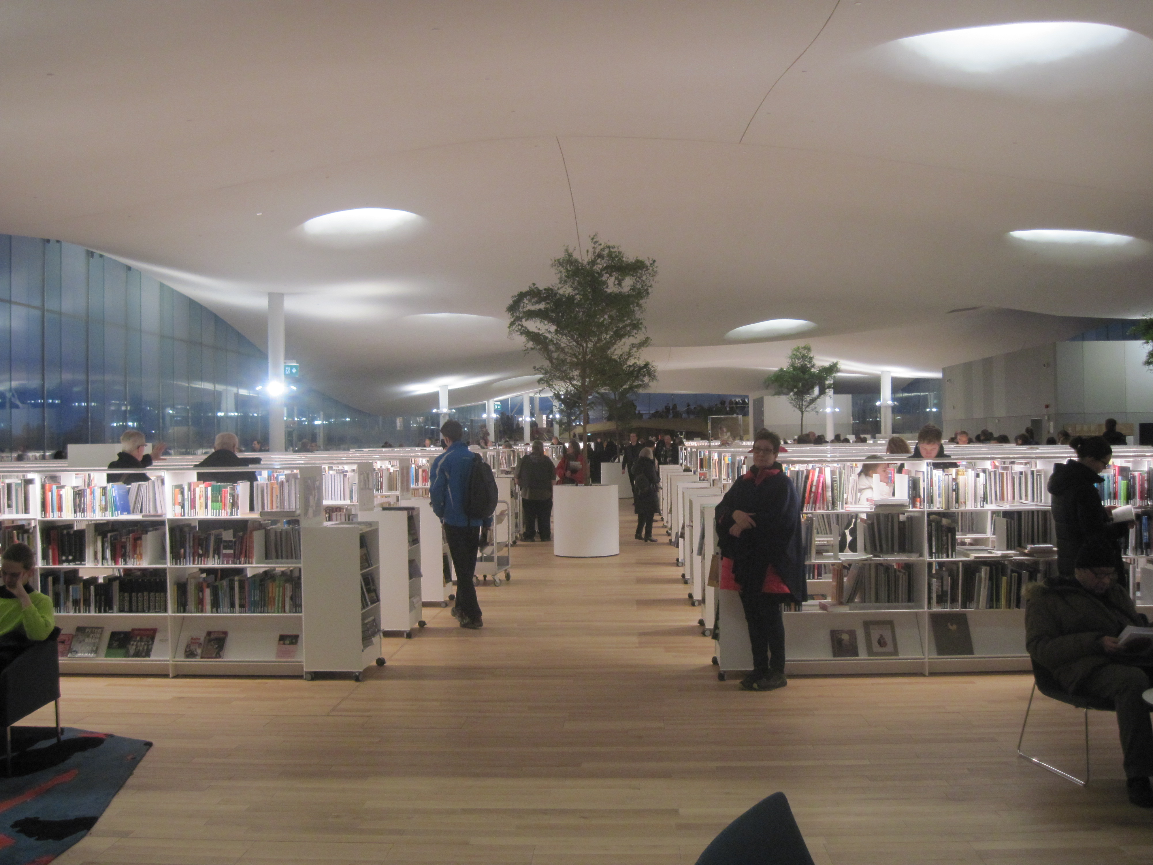 Central library Oodi in Helsinki, 3rd floor